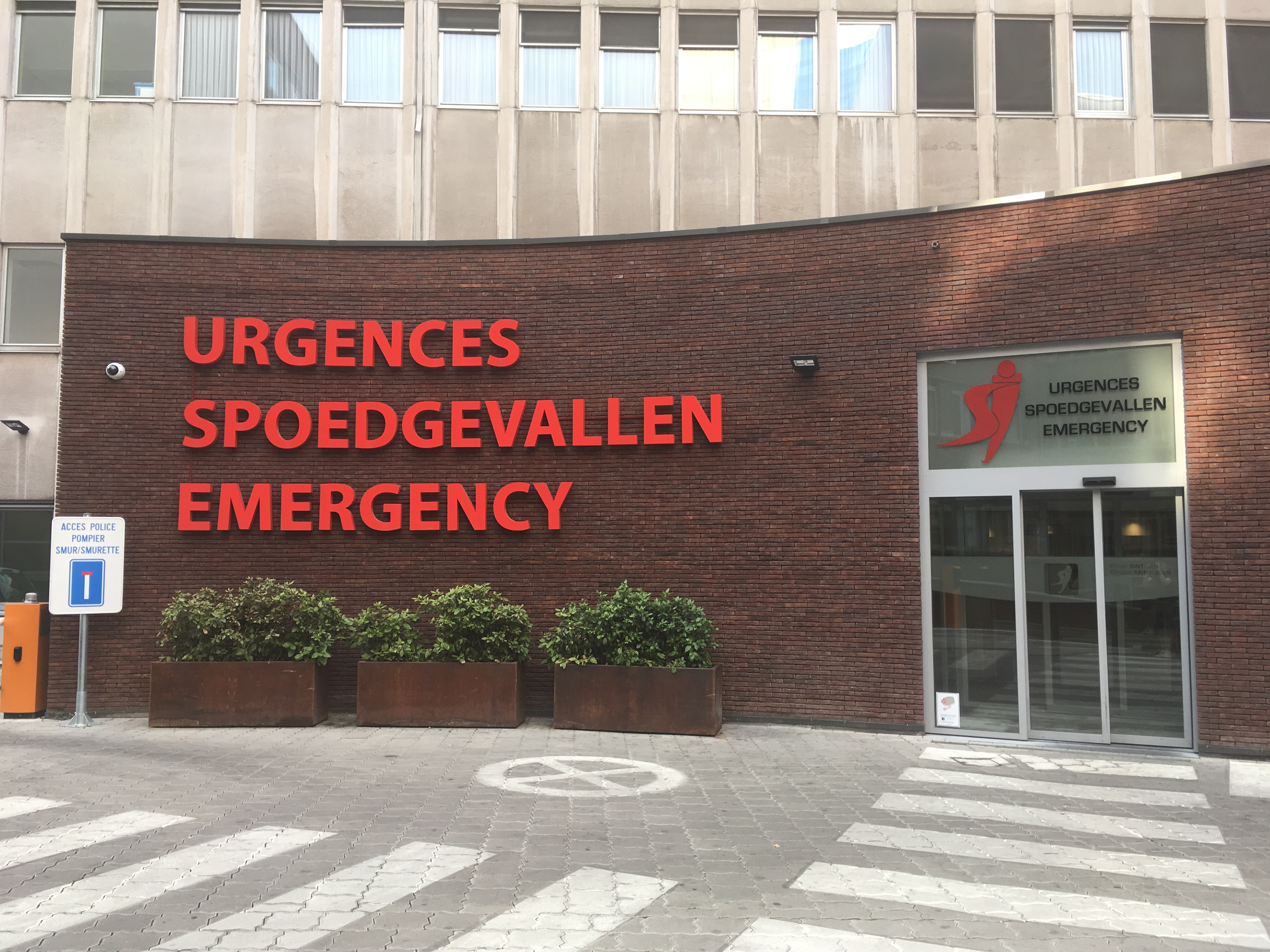 Emergency entrance of the Saint Johns's Clinic in Brussels